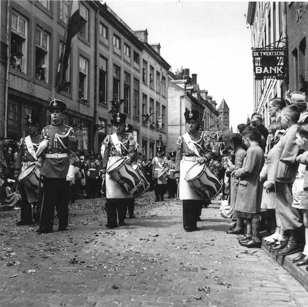 View of a marching band in the procession during the 1962 Pilgrimage of the Relics (Heiligdomsvaart) in Bredestraat in Maastricht, Netherlands.